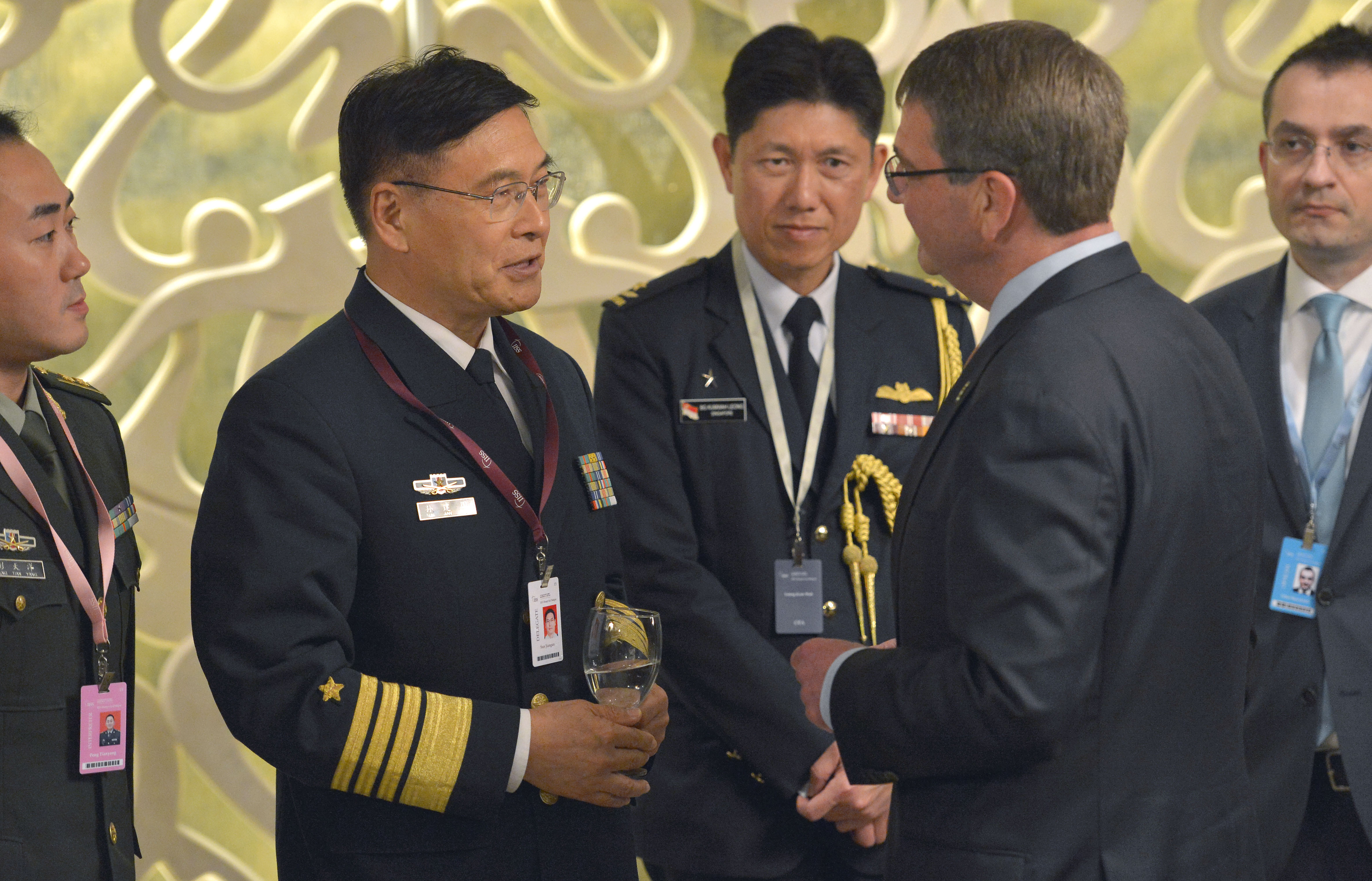 U.S. Defense Secretary Ash Carter speaks with Chinese Adm. Sun Jianguo during a luncheon of while attending the Shangri-La Dialogue in Singapore, May 30, 2015.